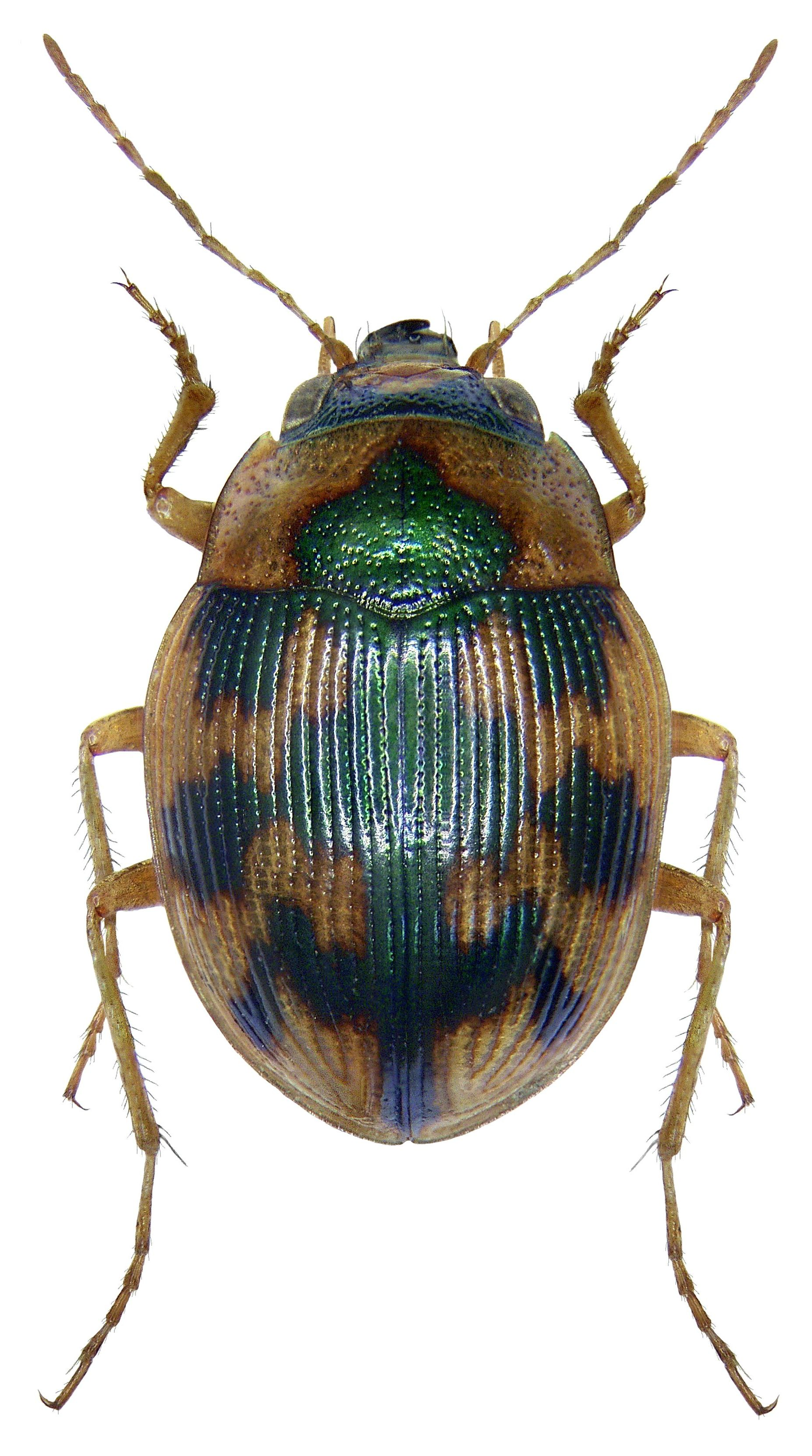 Dorsal view of ground beetle Omophron limbatum (Carabidae: Omophroninae). The specimen was captured in Lucca (Tuskany, Italy).